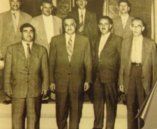 Mustafa Barzani (Kurdish: مستەفا بارزانی Mistefa Barzanî) (March 14, 1903 – March 1, 1979) also known as Mullah Mustafa was a Kurdish nationalist leader, and the most prominent political figure in modern Kurdish politics.